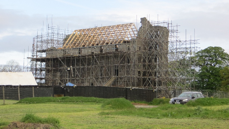 Duntarvie Castle, showing roof trusses added in 2015